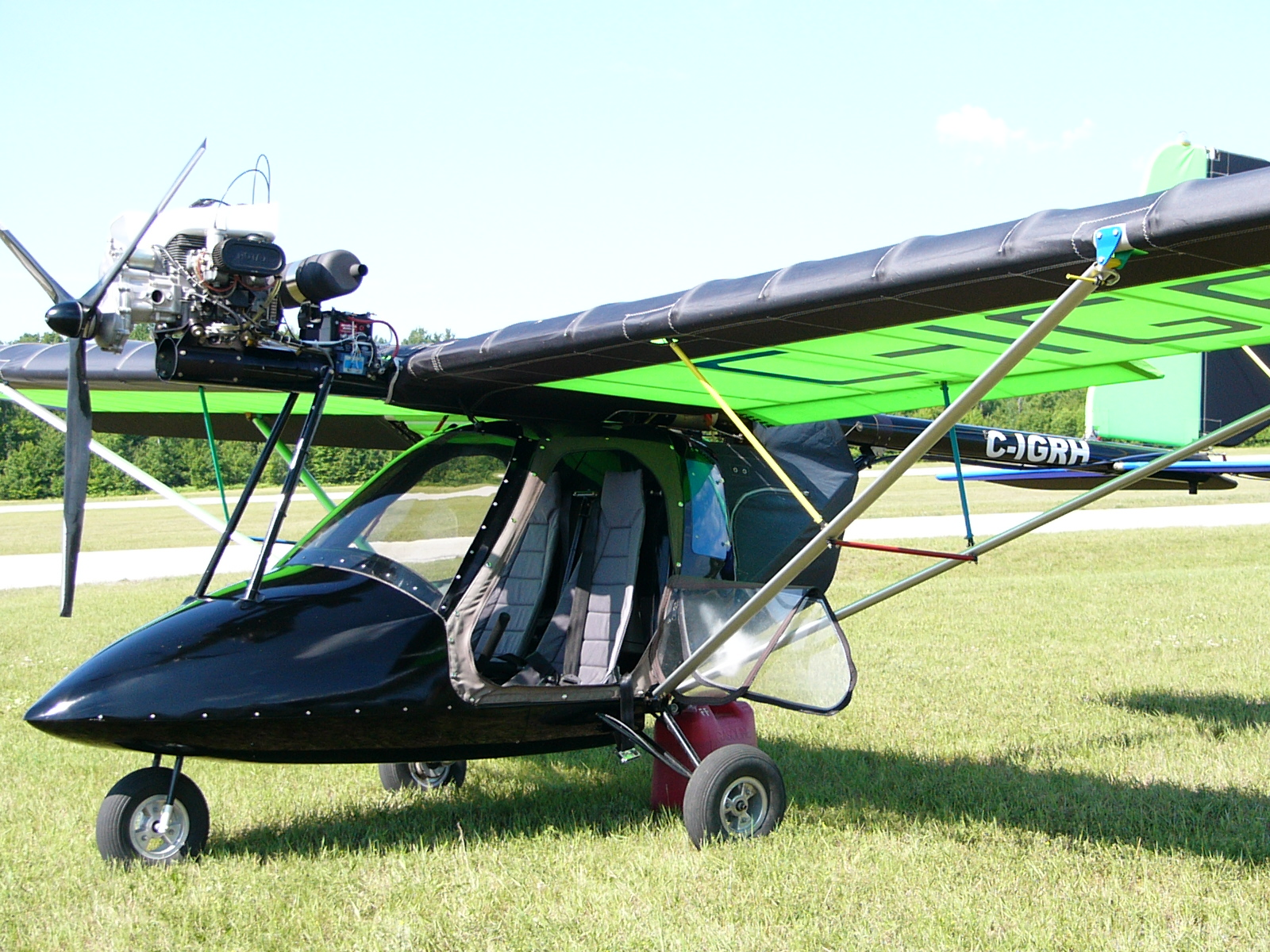 A Flightstar II in Canadian markings at the midland, Ontario, Canada fly-in